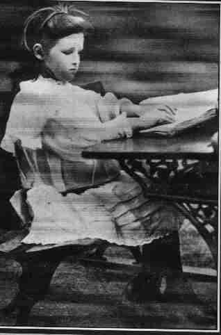 Alice Betteridge(circa1910)